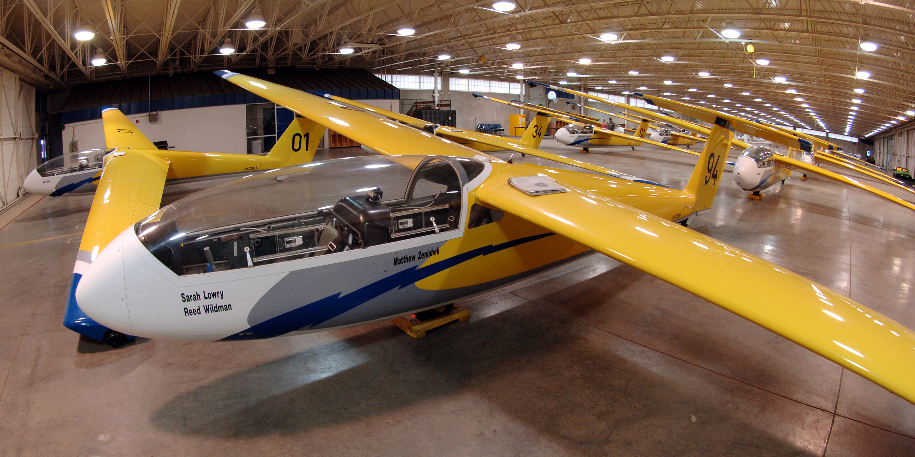 Gliders help future Air Force leaders soar -- TG-10B gliders are sheltered in a hangar on the flightline at the U.S. Air Force Academy, Colo. The TG-10B (L-23 Super Blanik), a conventional, two-place tandem, basic training sailplane, is used to introduce Air Force cadets to flight through the Soar-For-All program. Maneuvers flown in the TG-10B include aerotow, stall recoveries, slow flight, steep turns and rectangular traffic patterns.